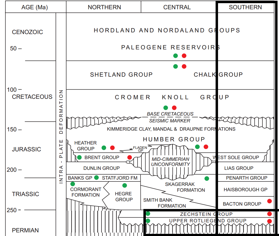 Stratigraphic column of the Post-Carboniferous lithostratigraphic groups of the central graben of the North Sea Basin (“North Sea Graben World Energy Project Province”). Green circles mark formations from which petroleum is produced, red circles mark formations from which natural gas is produced.